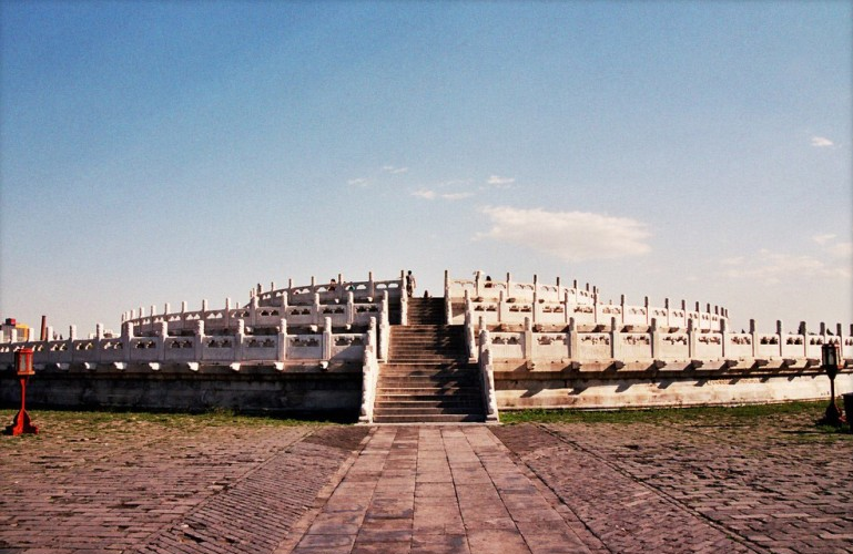 For more pictures and videos of the Temple of Heaven, please visit here. The Cicular Mound